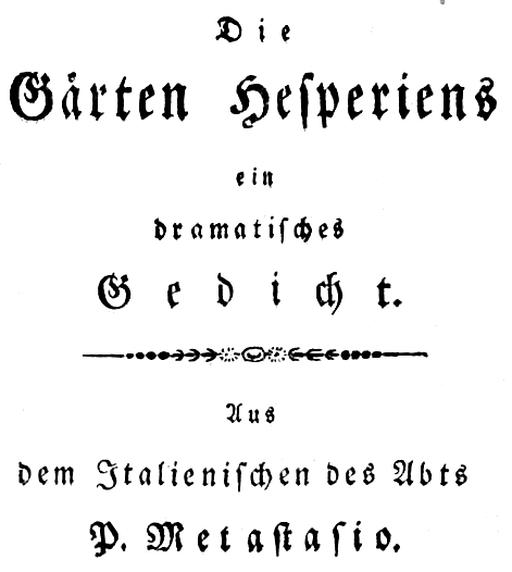 Johann J. von Huber - Die Gärten Hesperiens - Titelseite - Augsburg 1805